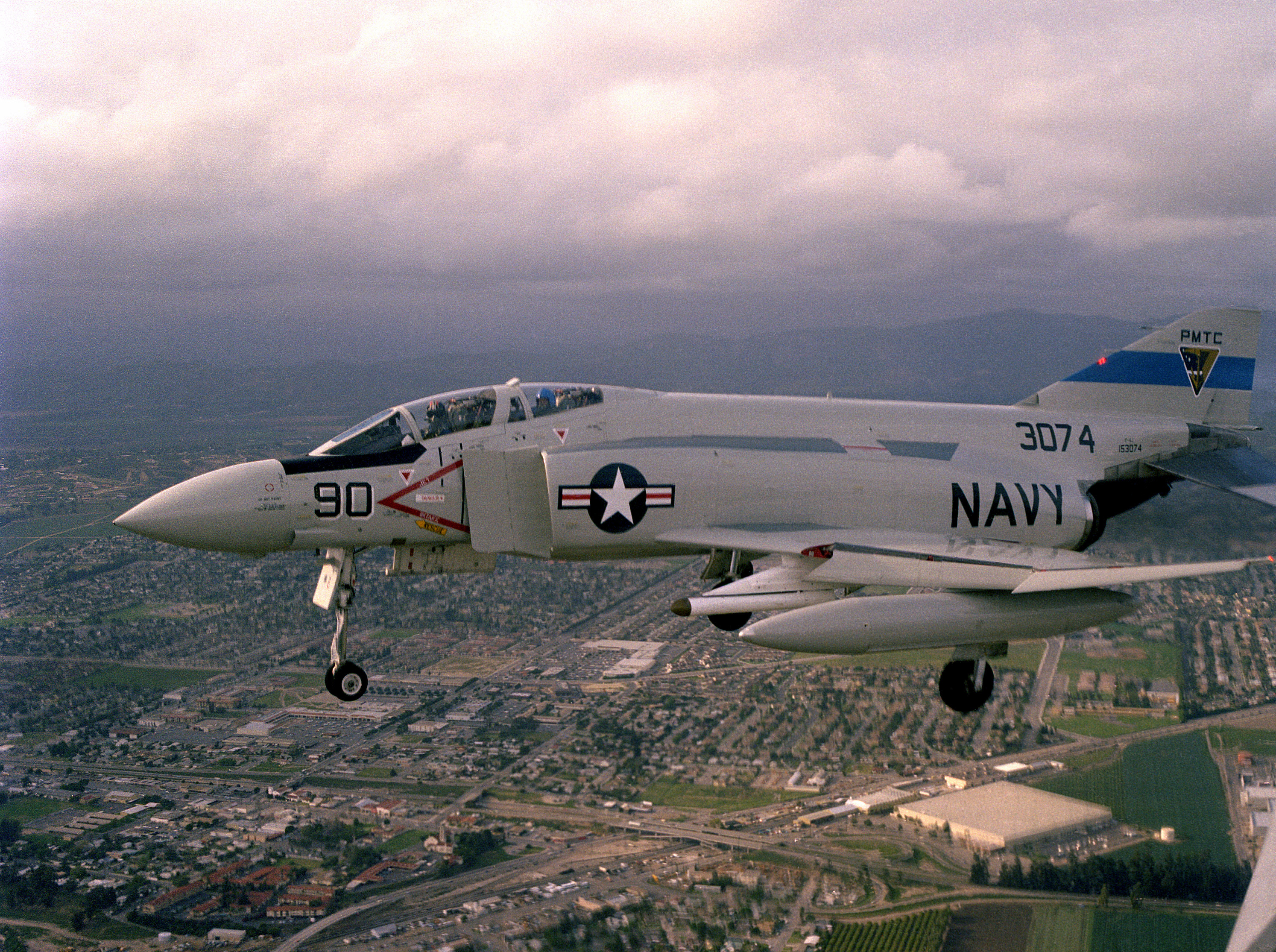 A U.S. Navy McDonnell F-4J-26-MC Phantom II (BuNo 153074) in flight over the Pacific Missile Test Center, Point Mugu, Califonia (USA), in 1982. This aircraft is today on display at the NAS Lakehurst Air Park, New Jersey (USA).